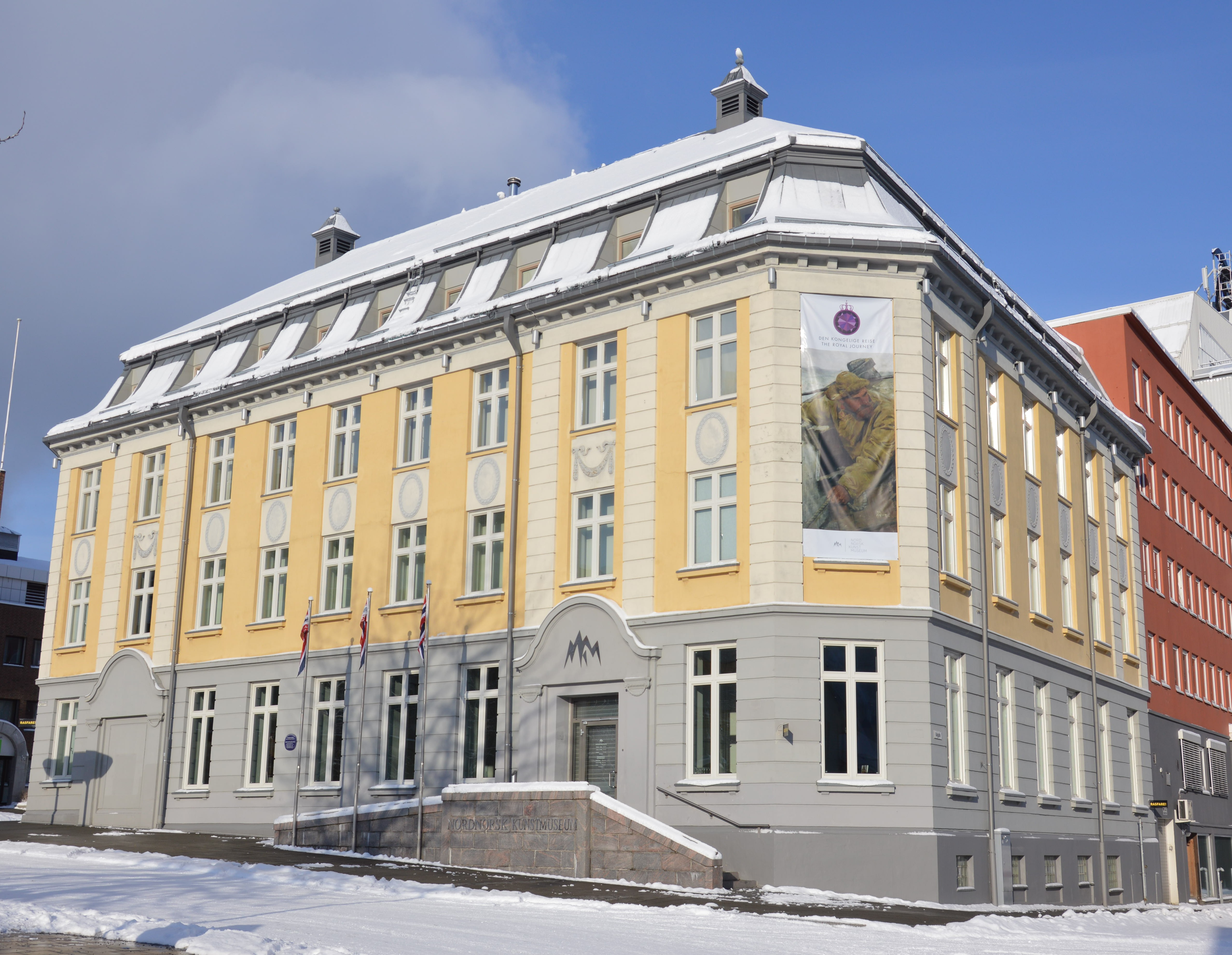 The Art Museum of Northern Norway in Tromsø